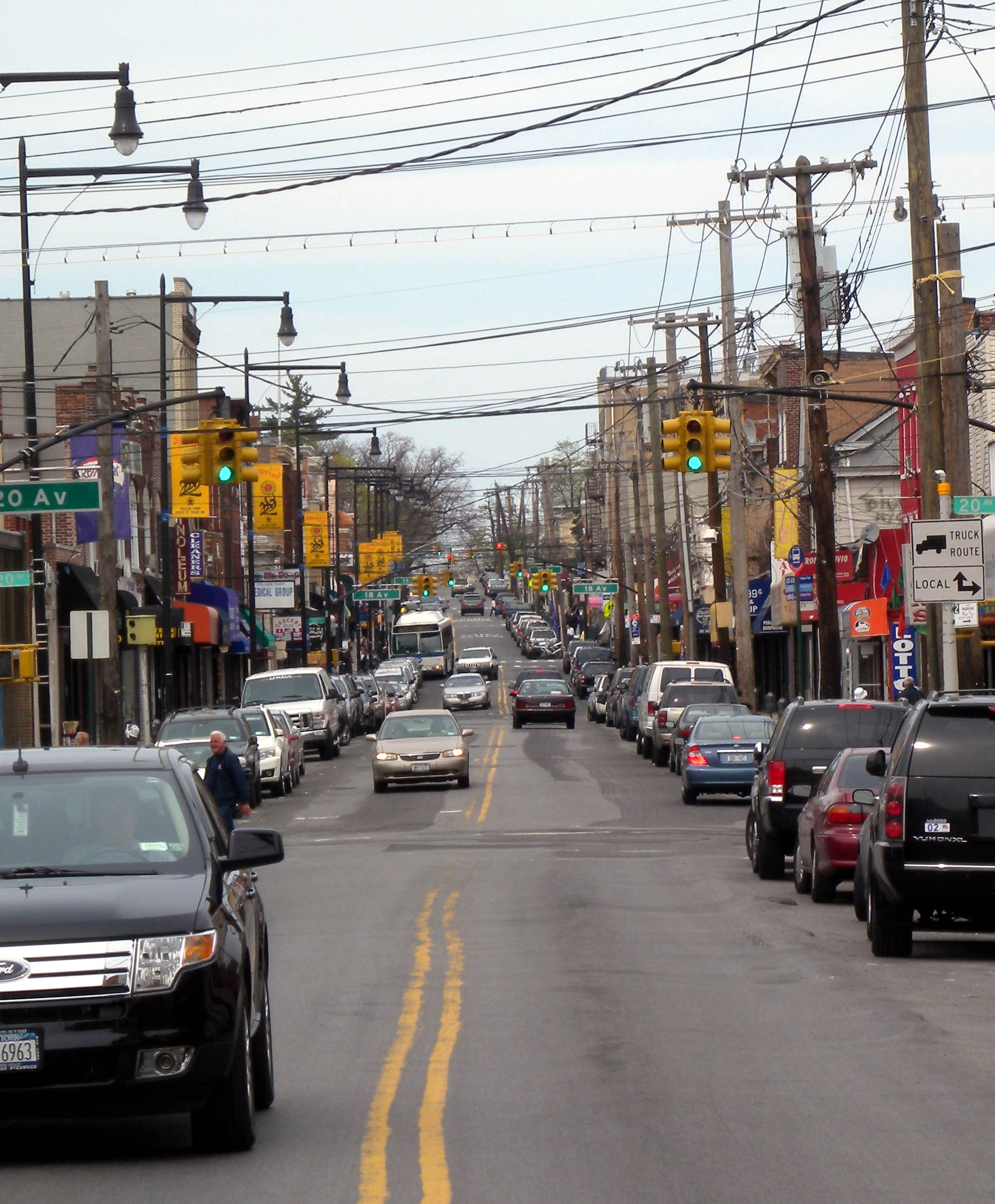 Looking north, full zoom, in College Point, Queens along College Point Boulevard past 20th Avenue on a cloudy day.